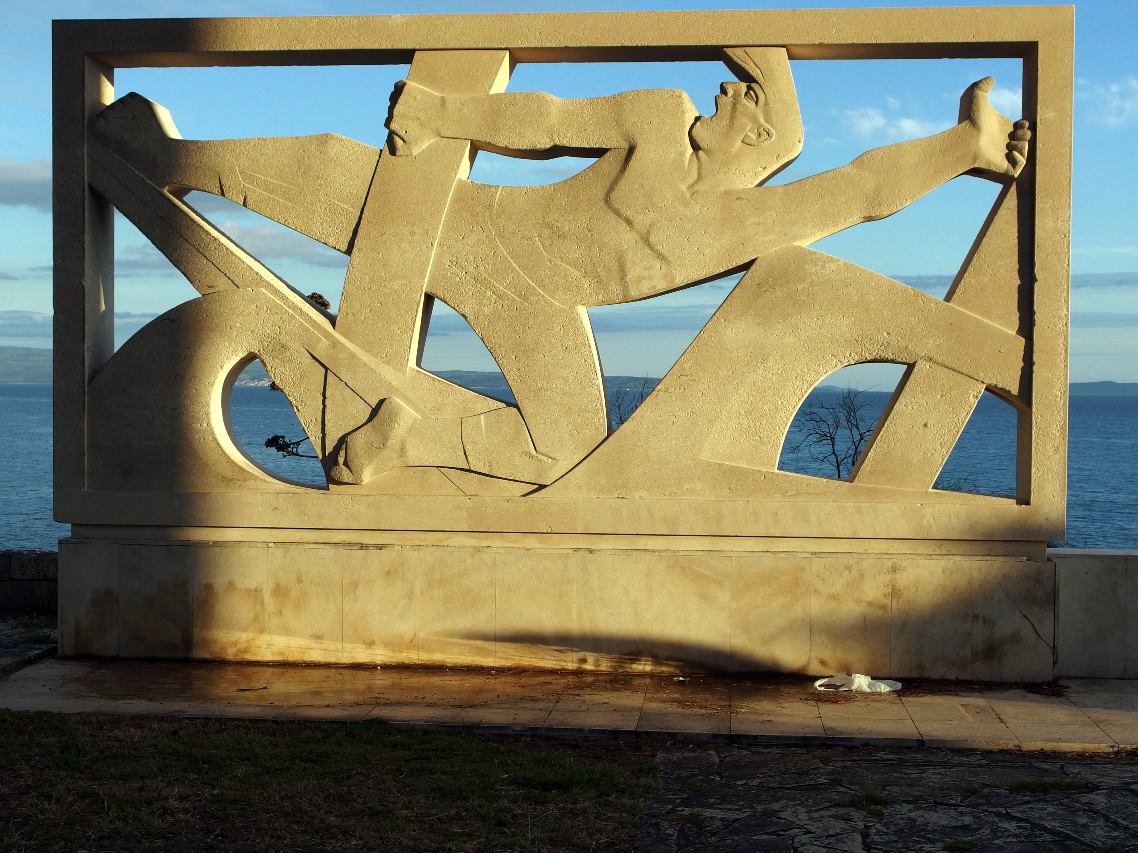 2013-06-02 in Split.